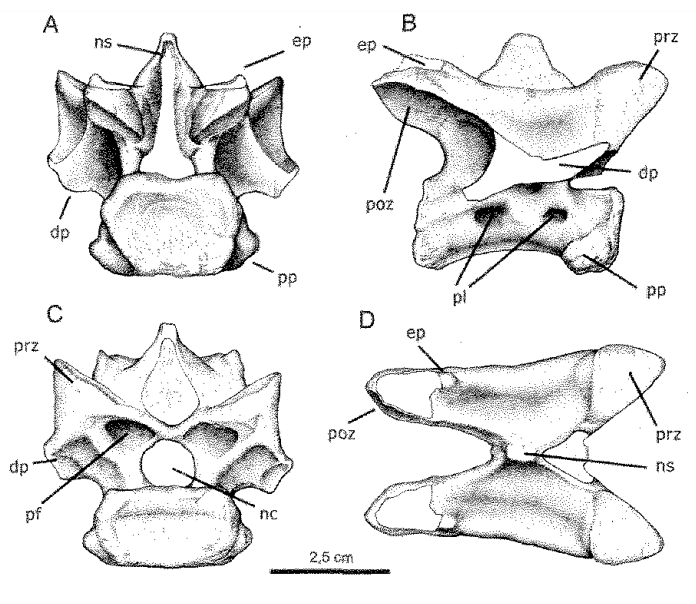 Fig. 11. Laevisuchus indicus (K20/613), cervical vertebra in A, posterior, B, right lateral, C, anterior, and D, dorsal views. Abbreviations: dp, diapophysis; ep, epipophysis; nc, neural canal; ns, neural spine; pf, pneumatic fossa; pl, pleurncoel; poz, postzygapophysis; pp, parapophysis; prz, prezygapophysis.